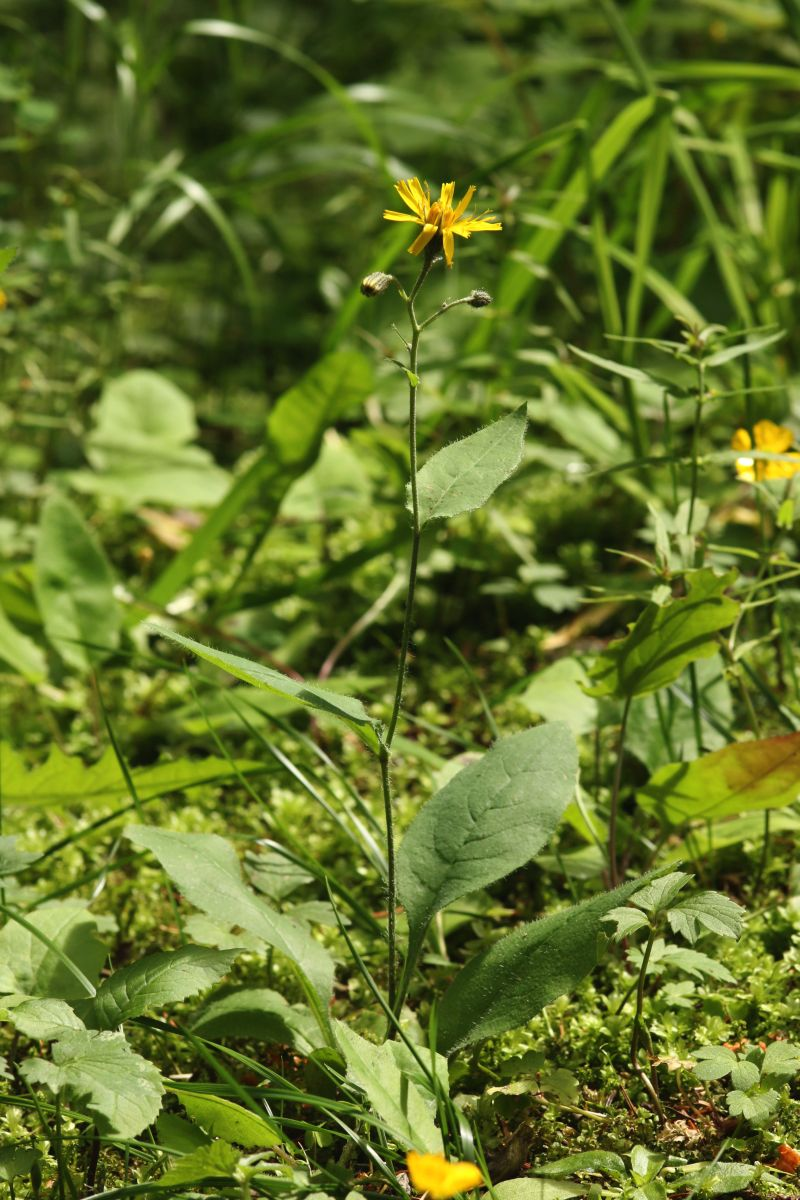 Hieracium pseudalbinum (H. juranum agg.), Modrý důl, Krkonoše mountains, Czech republic (endemic species of Krkonoše)